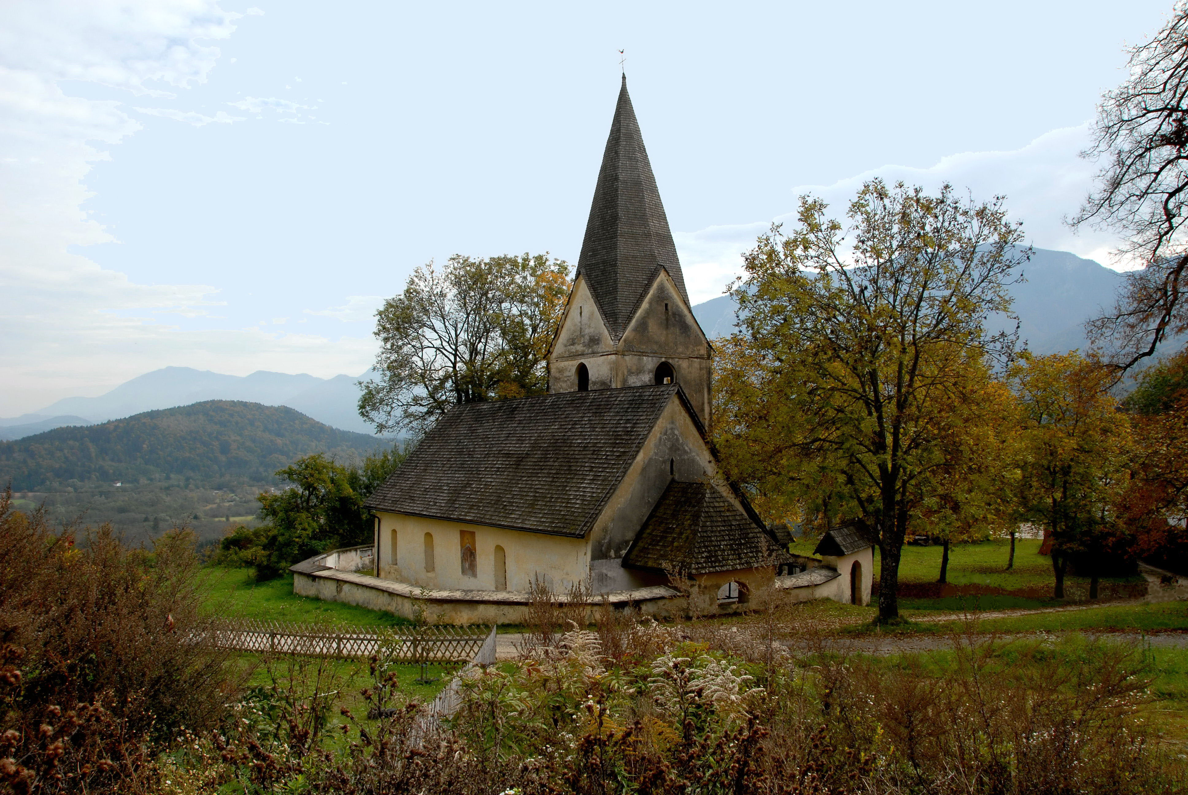 Subsidiary church Holy Anna at Saager in the municipality Grafenstein, district Klagenfurt Land Carinthia, Austria